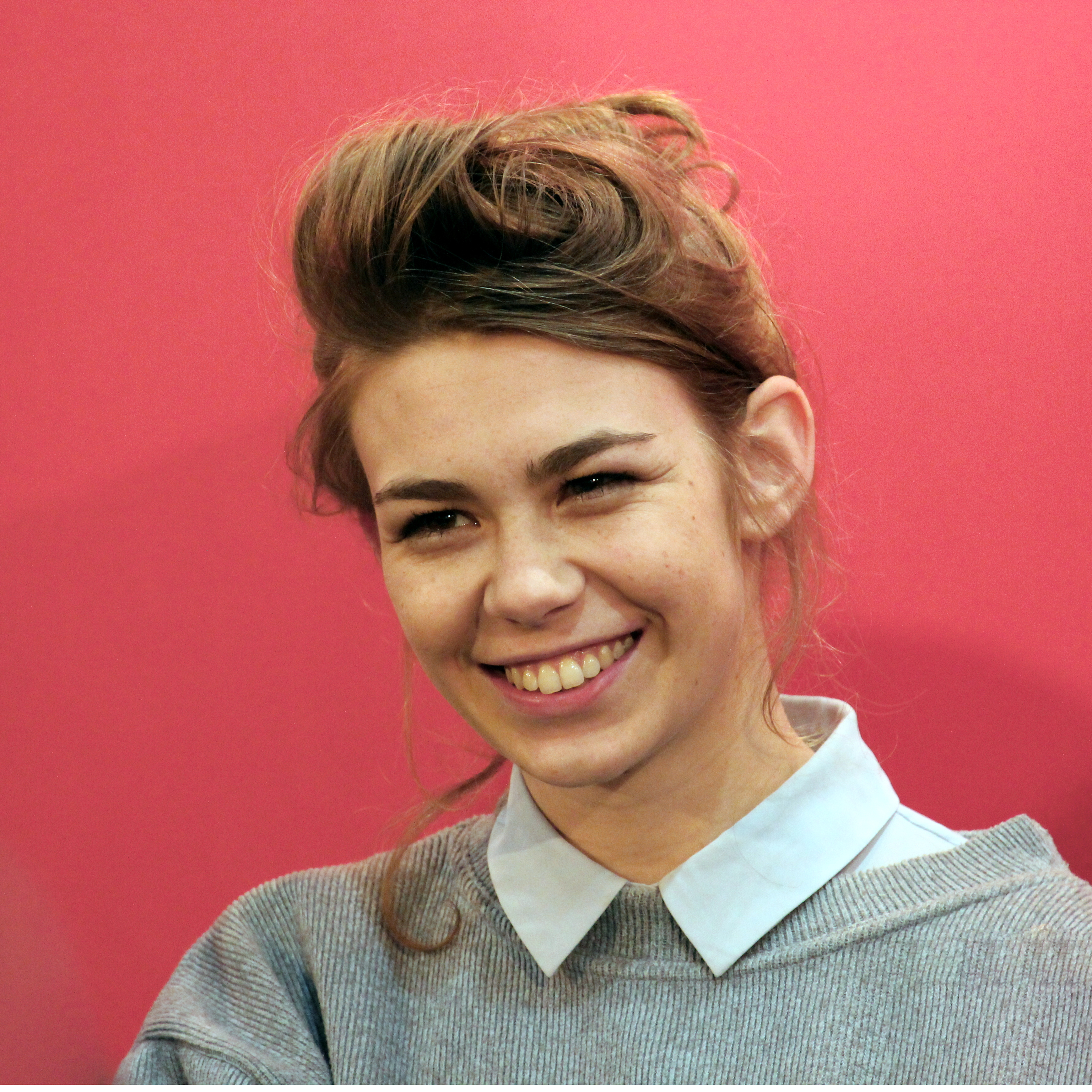 Ronja von Rönne Leipzig Book Fair 2017